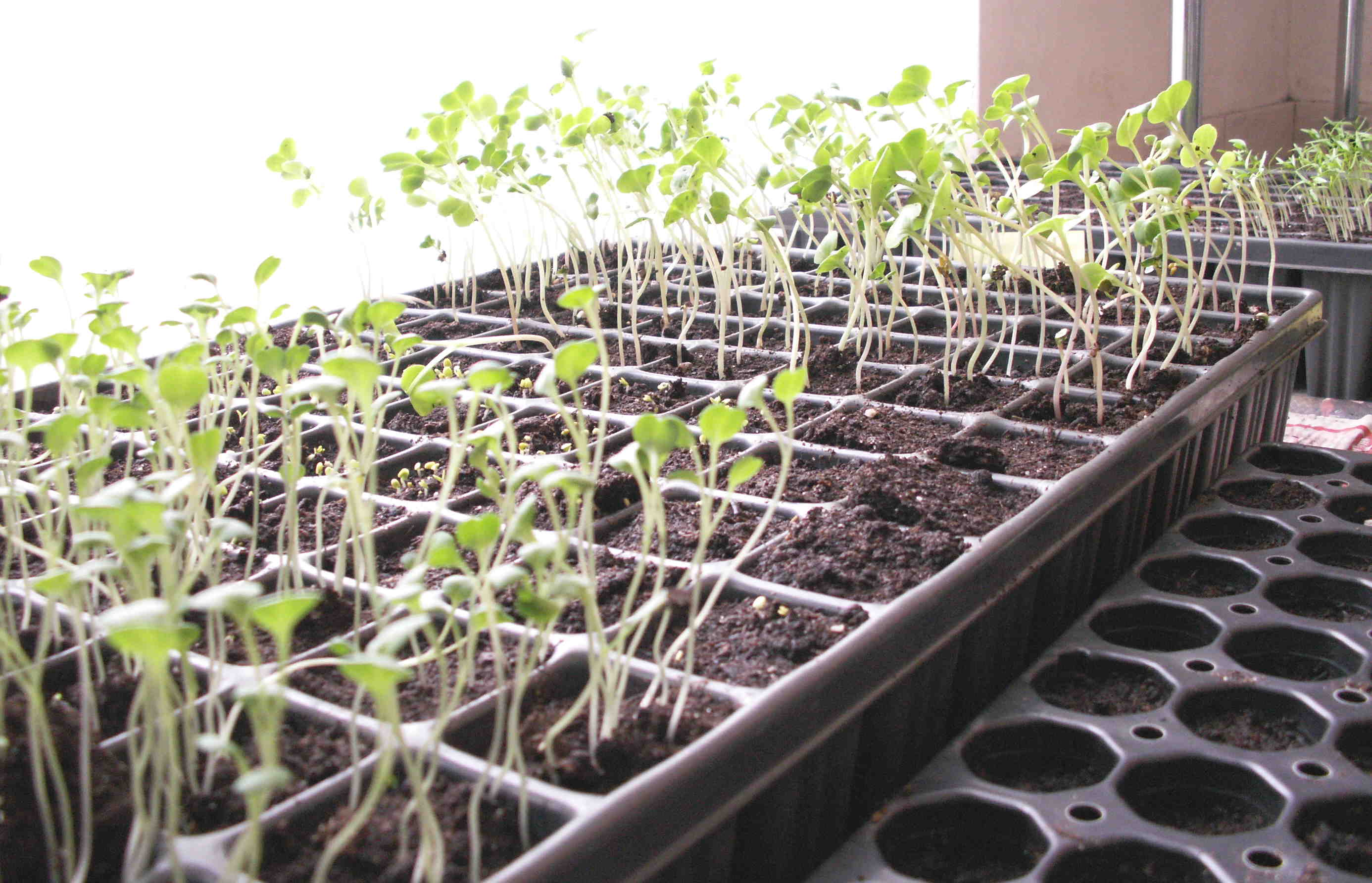 A tray used in horticulture (for sowing and taking plant cuttings)